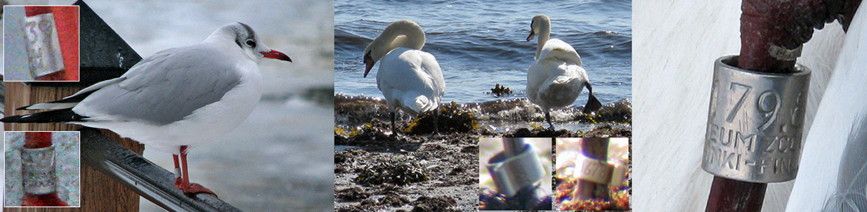 Ringed birds, through photo documentation identified. From left Black-headed Gull, Swedish, 2cy; Mute Swan, Swedish, 17cy; and Black-headed Gull, dead, Finnish, 9cy (cy stands for calendar years).